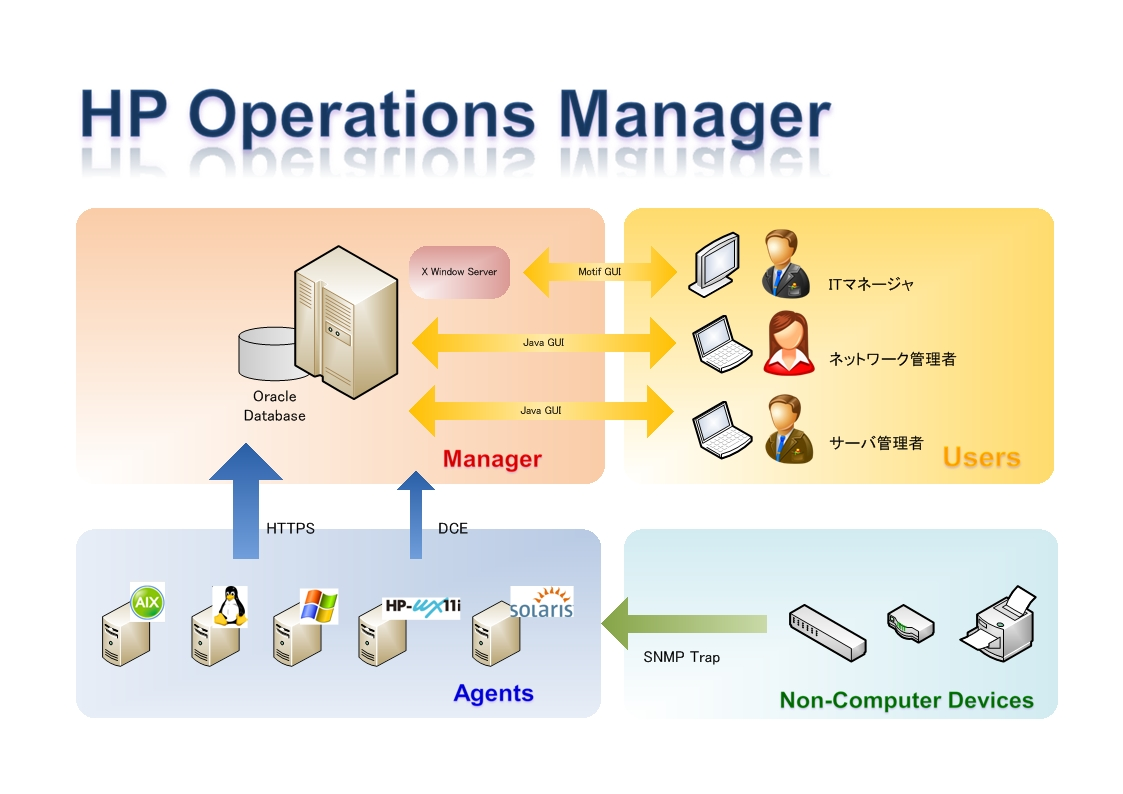 overview of operations